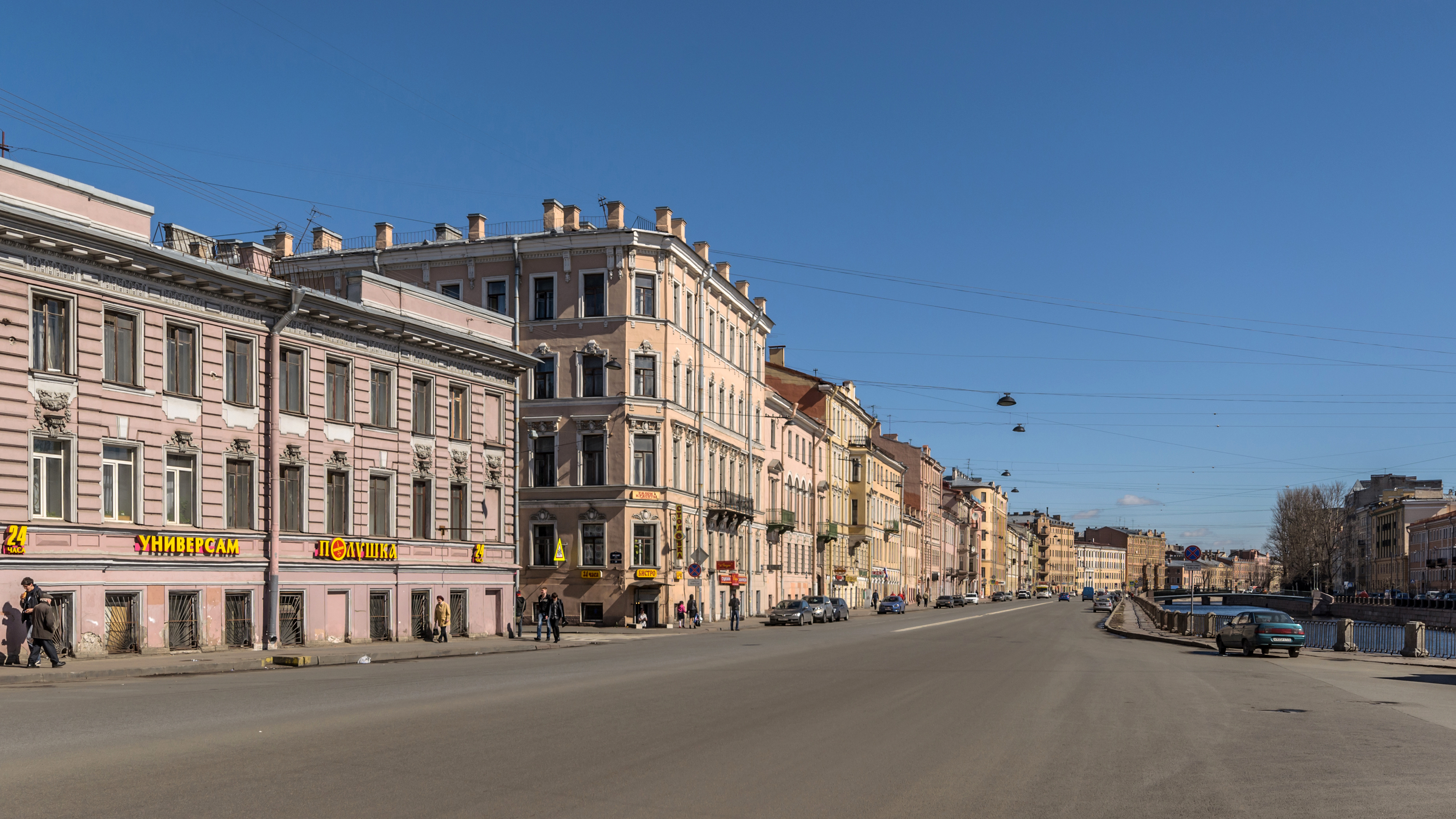 Rimskogo-Korsakova avenue in Saint Petersburg